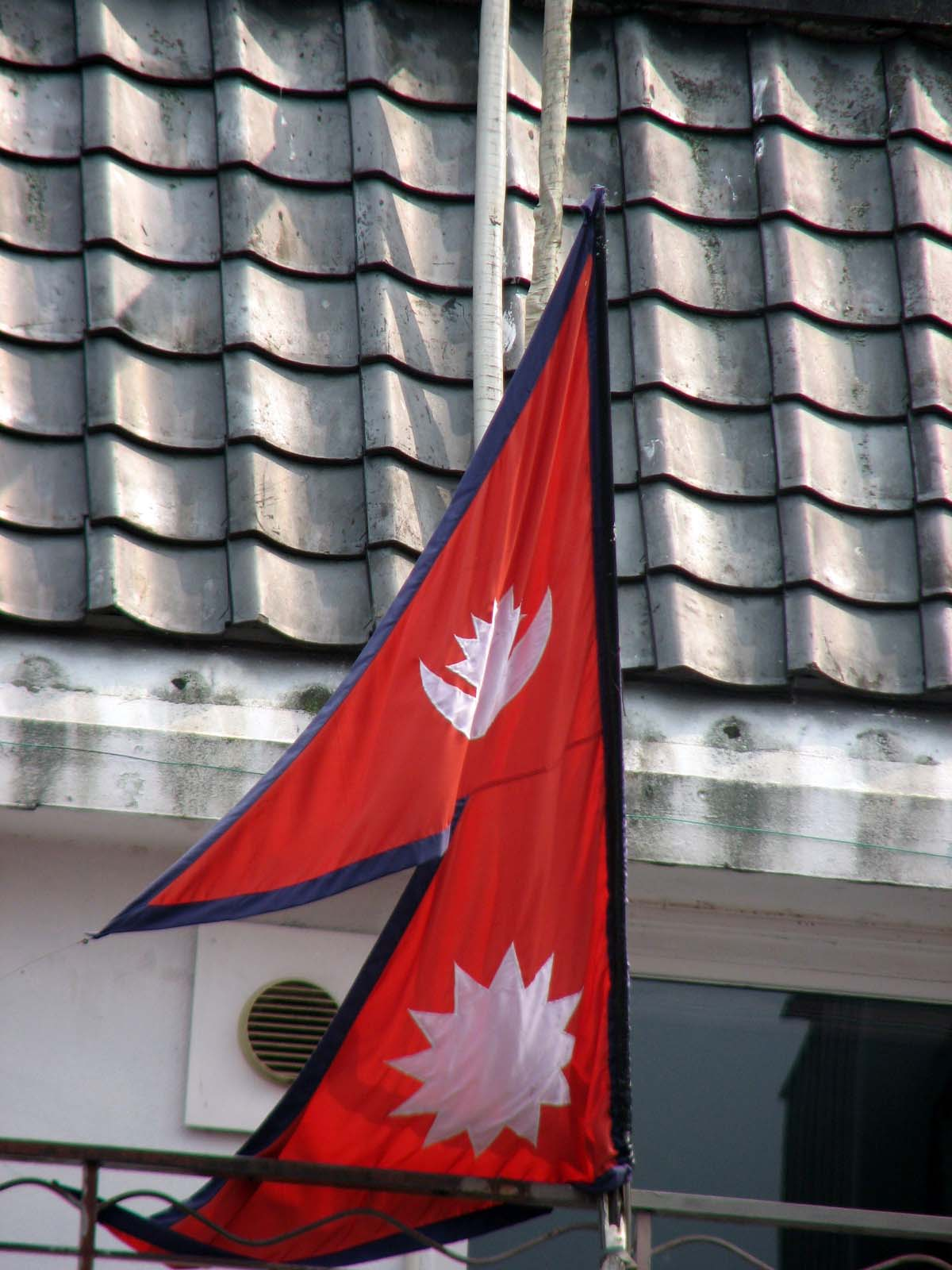 The flag of Nepal, near the Kamogawa on Sanjo street.